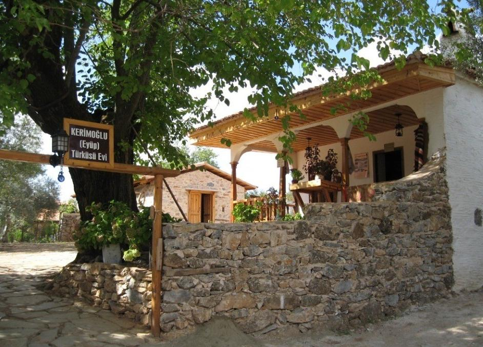 Kerimoğlu House and Museum in :en:Yerkesik township near :en:Muğla, Turkey